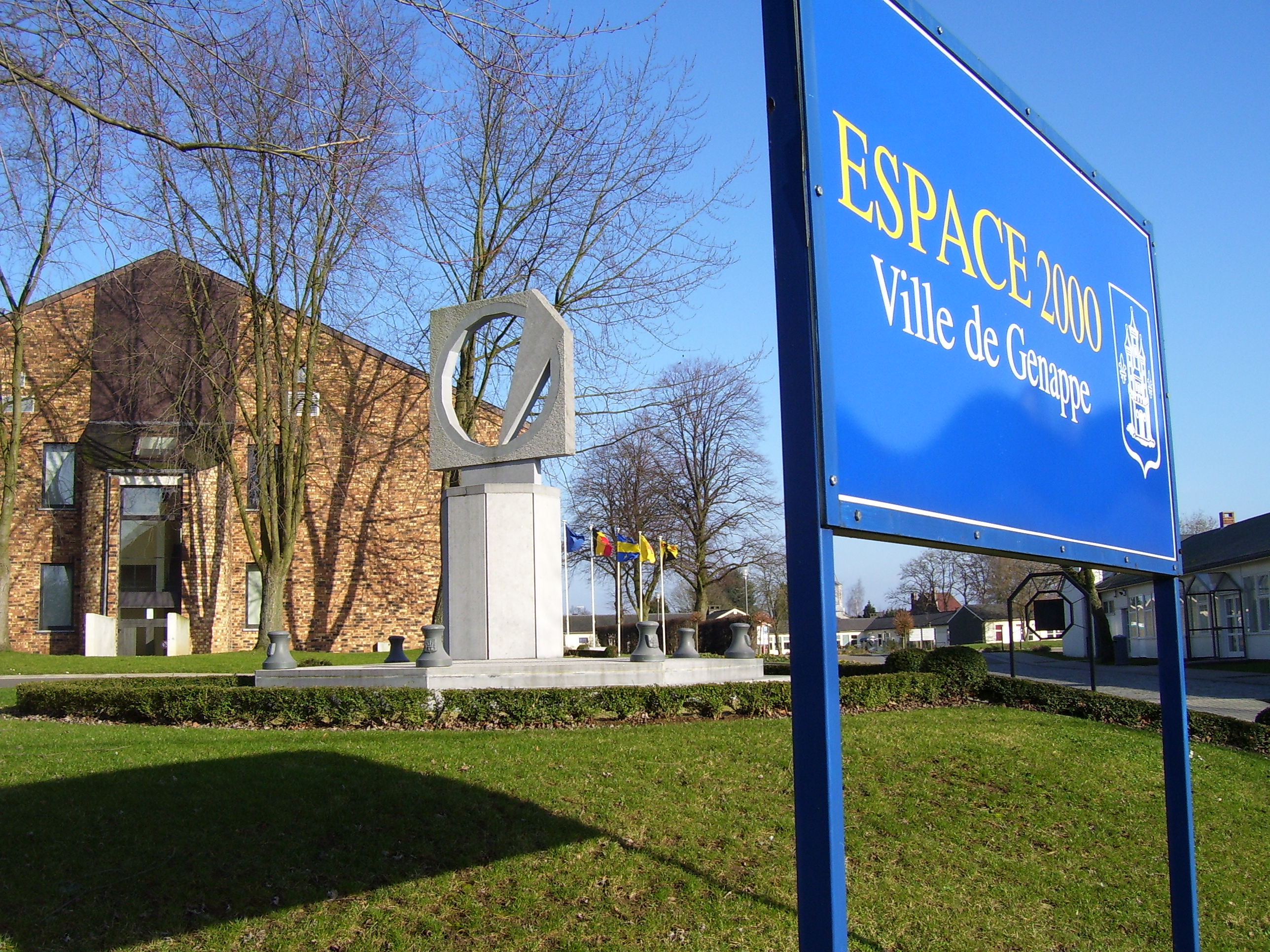 Maison communale (municipality) of Genappe, Belgium